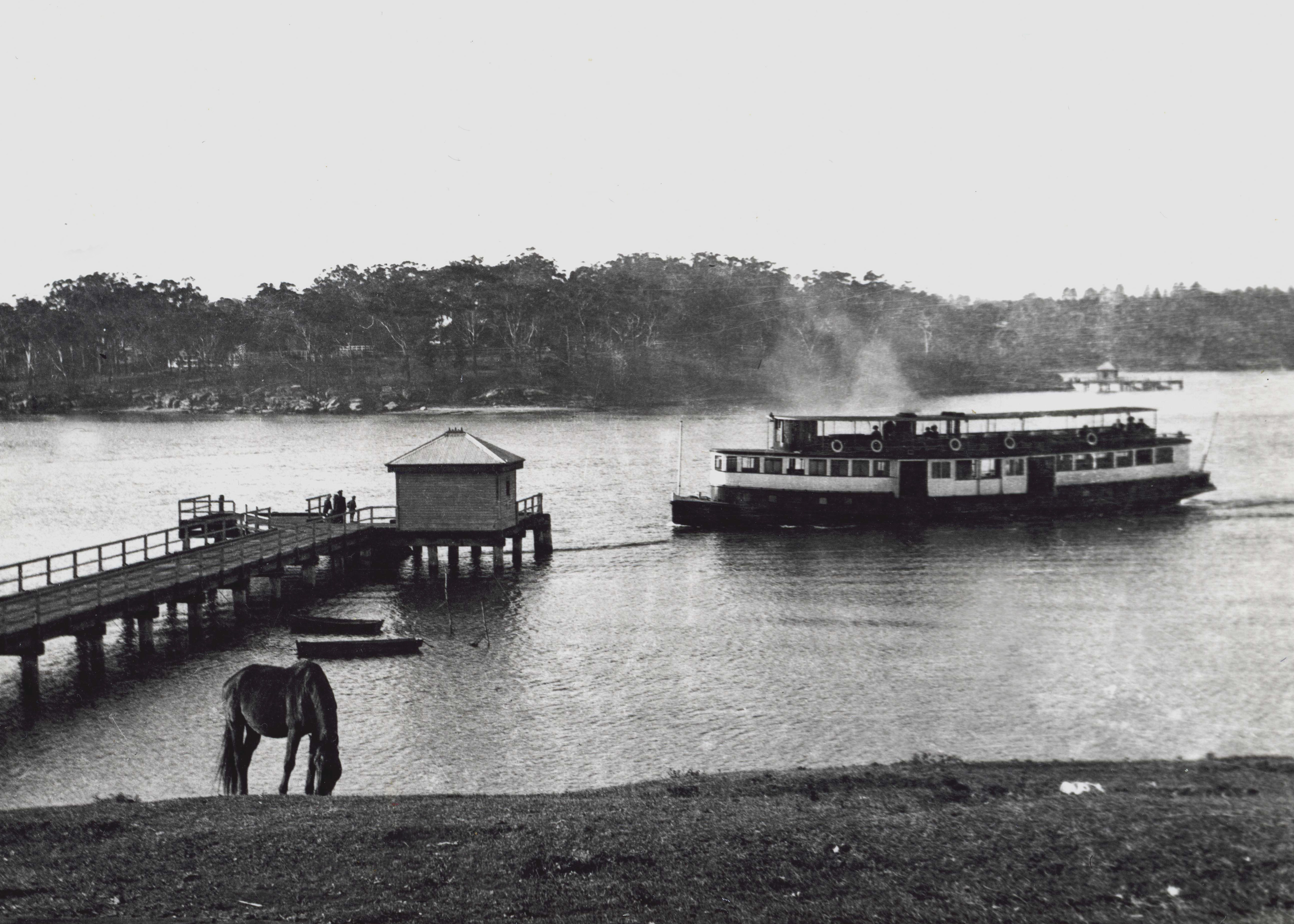 Parramatta River Ferry, Pheasant (built 1884) after her modifications in the early 1900s. Converted to a lighter 1914. Local Studies Collection, City of Canada Bay Library Service